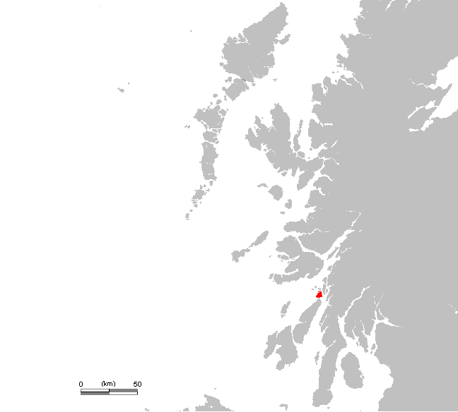 UK Scarba.PNG (Scotland, Hebrides)